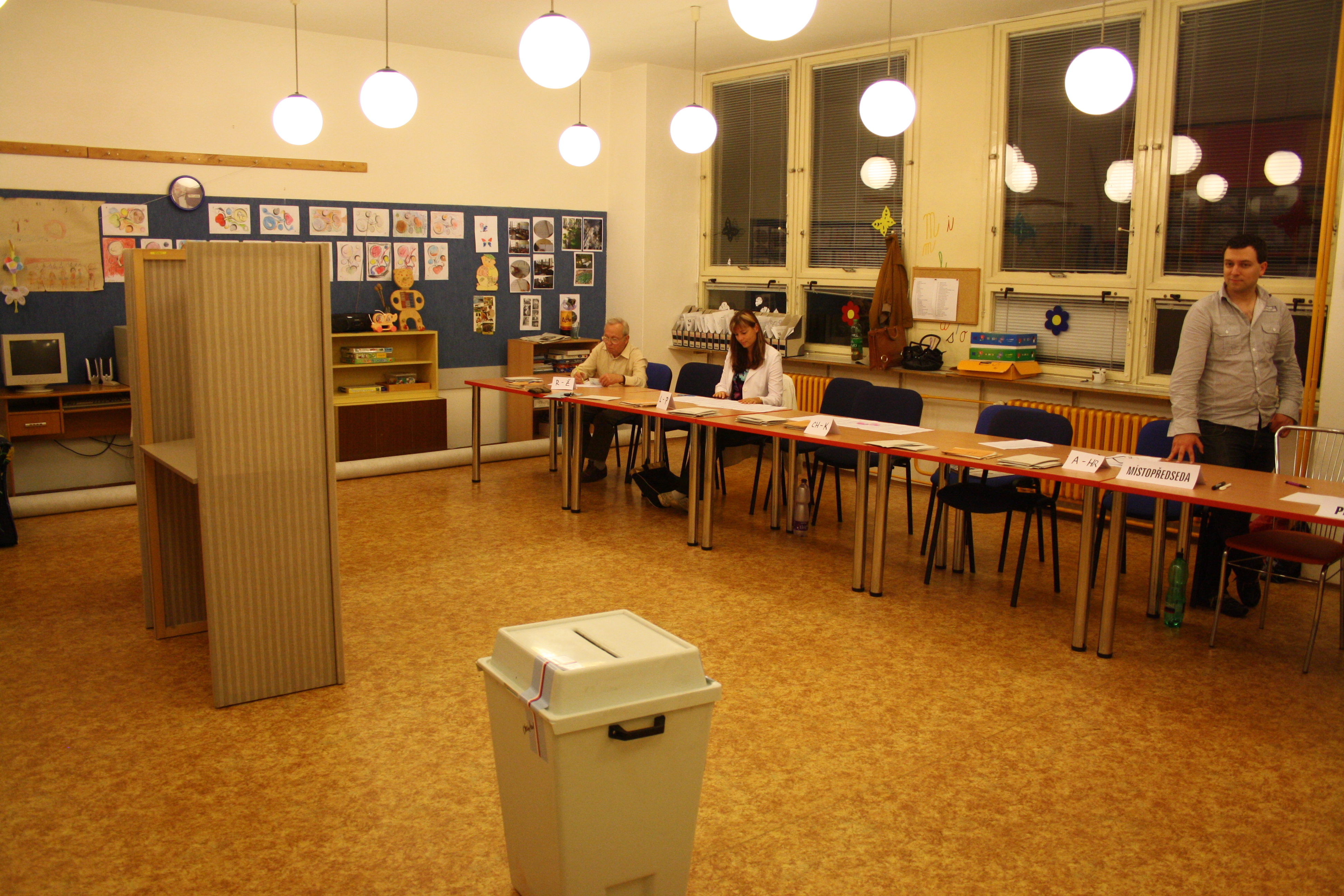 Polling station for 2010 czech legislative election in Třebíč.